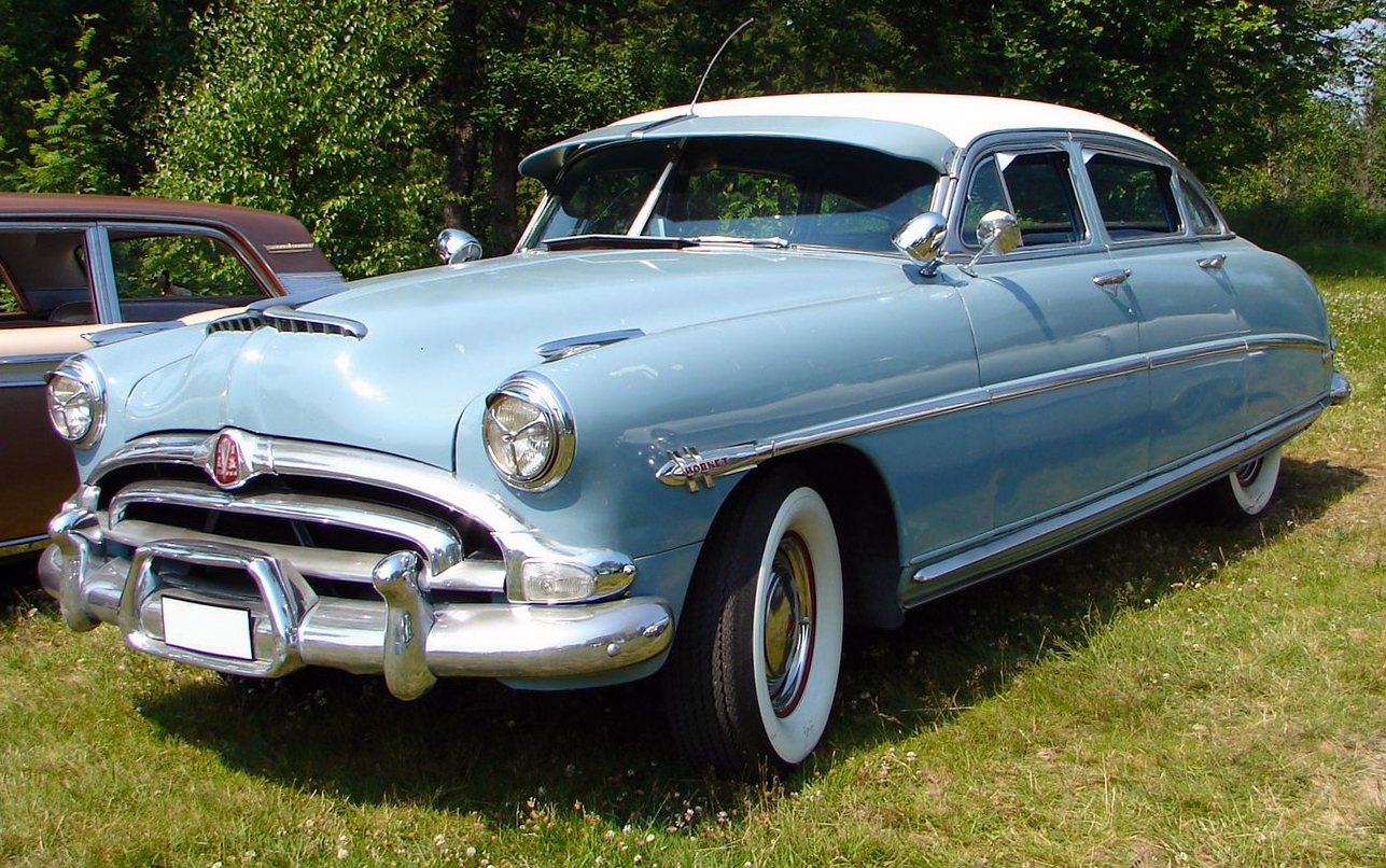 Hudson Hornet 7C 1953 in Backamo, Sweden